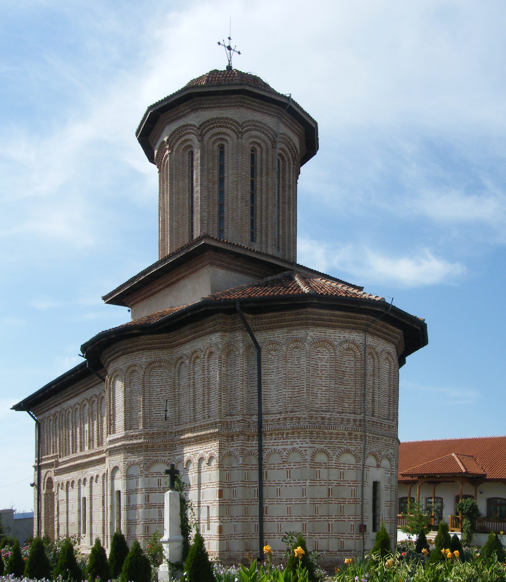 Church of Saint Mercurius from the Plătărești Monastery, Călărași County, Romania